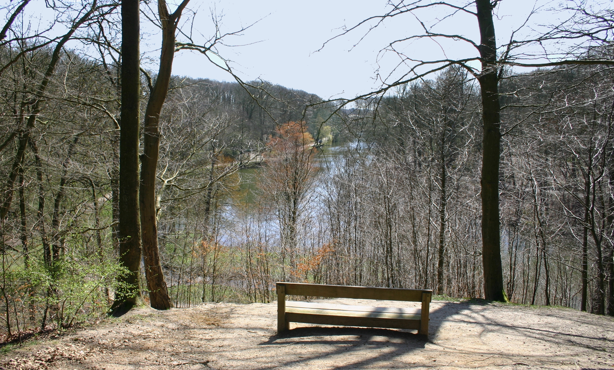 Wiev over the lake Marielund in Kolding, Denmark.